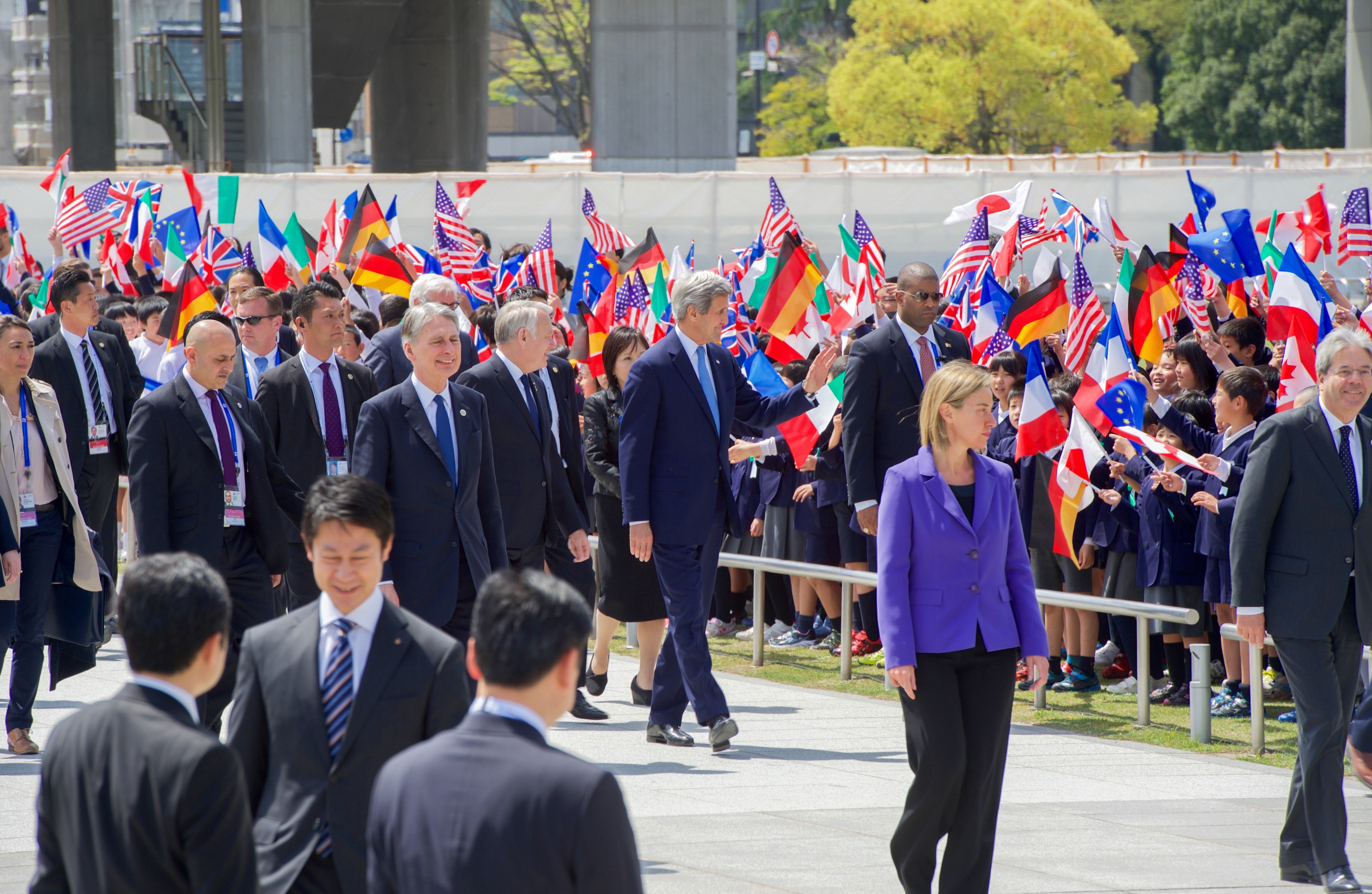 U.S. Secretary of State John Kerry and his counterparts pass school children on April 11, 2016, as they arrive at the Hiroshima Peace Memorial Park to lay wreaths to commemorate the atomic bomb blast that ended the World War II Pacific campaign during a break in the G7 Ministerial Meetings in the city. [State Department Photo/Public Domain]